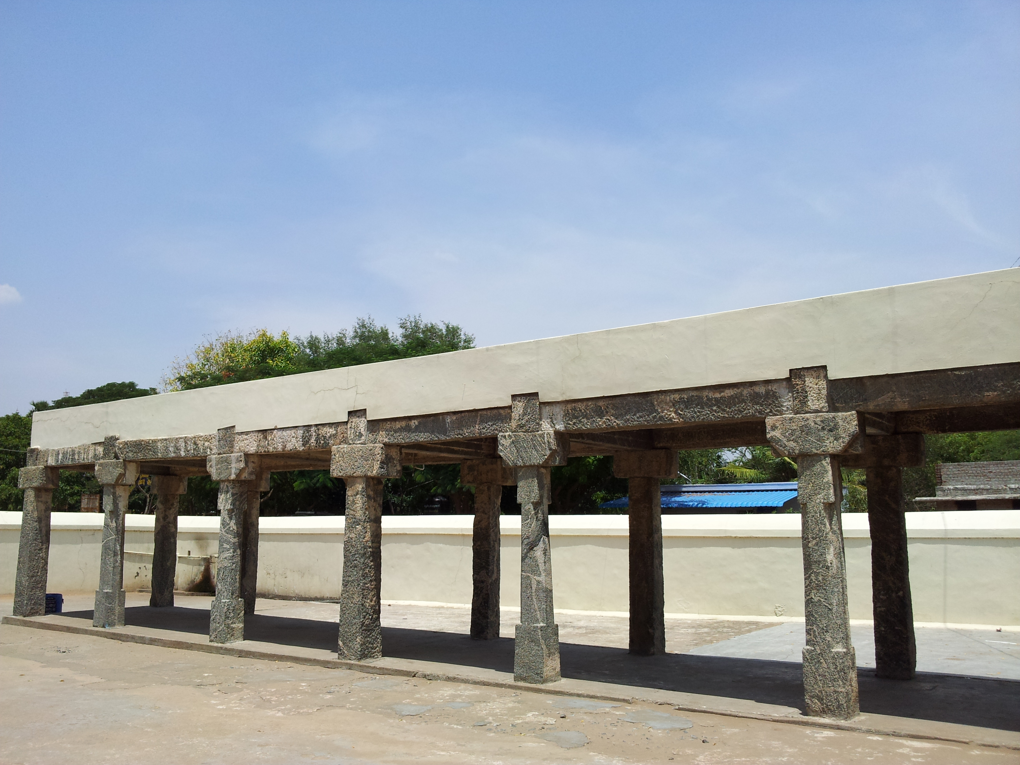 Muruganathasvami Temple